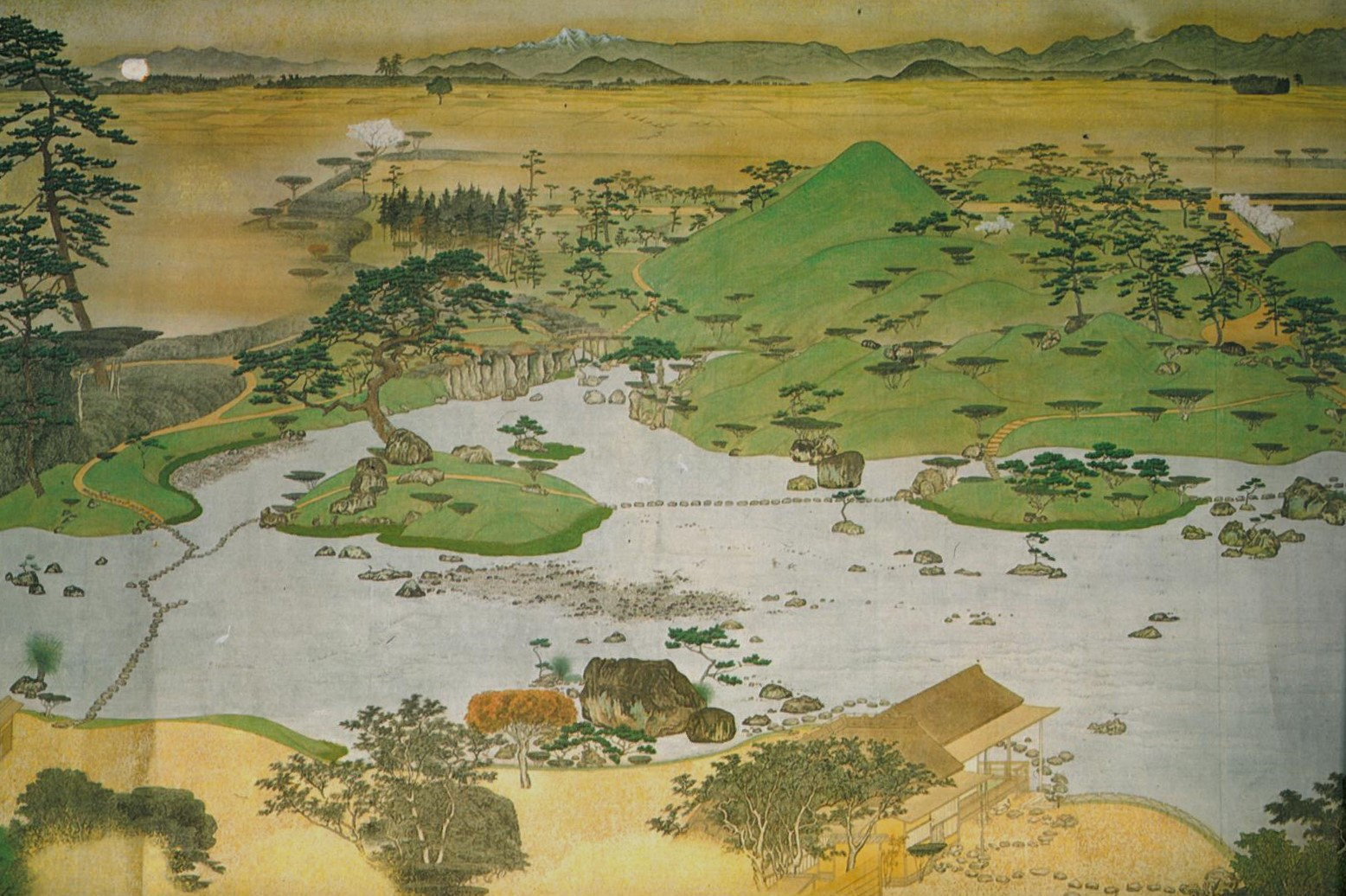 Suizenji Park (Kumamoto) Edo-period